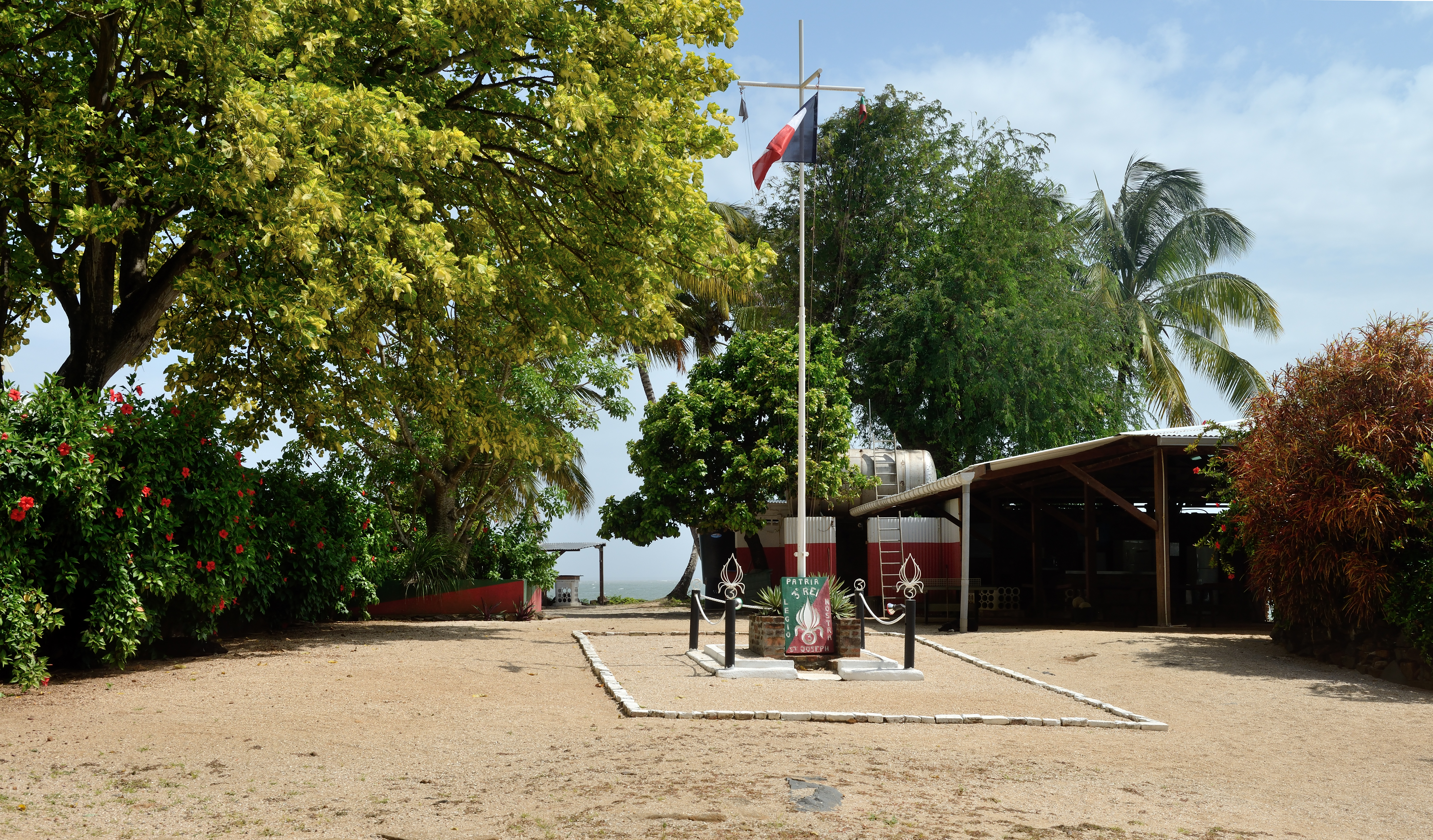 Ile Saint-Joseph, French Guiana: French Foreign Legion.